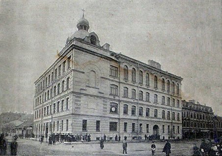 Photo of Saint Petersburg Lyceum 30 at early 1900s